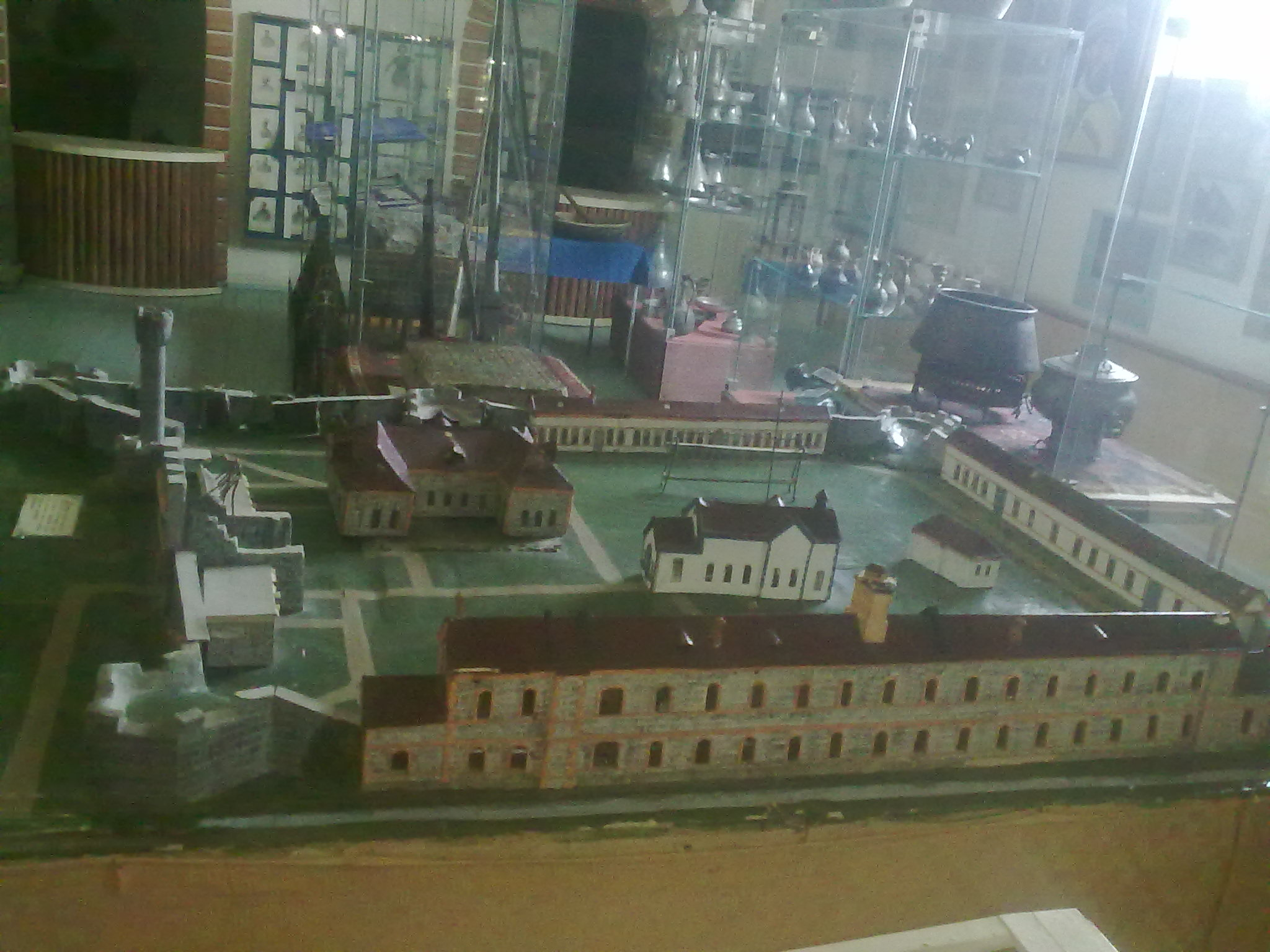 Photo of the model of the Akhtian fortress in the Akhtian Local museum. Akhty. Dagestan. Russia.